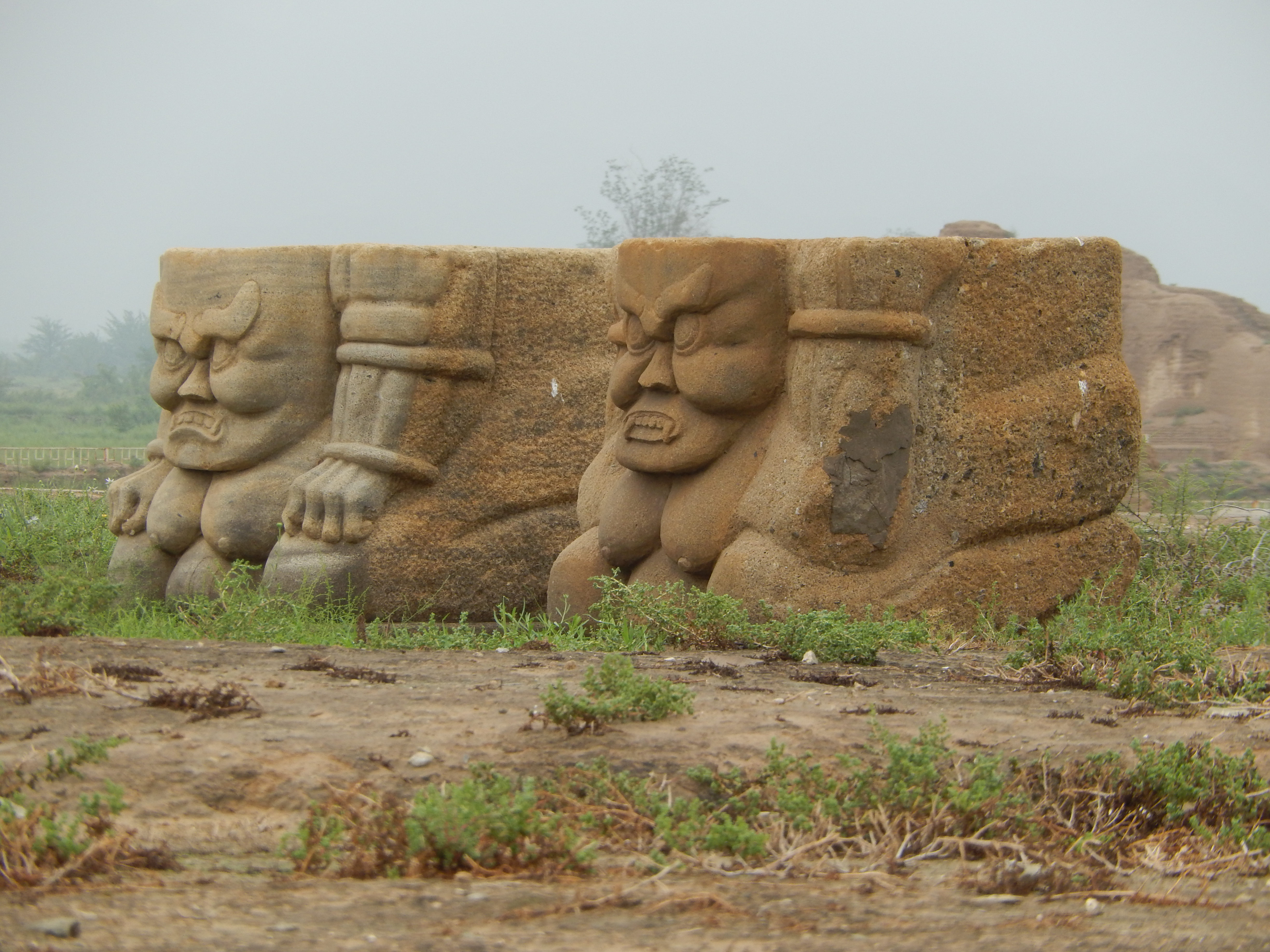 Western Xia imperial tombs, Tomb No. 3, Yinchuan, Ningxia, China. Two reproduction stele bases on the east side.